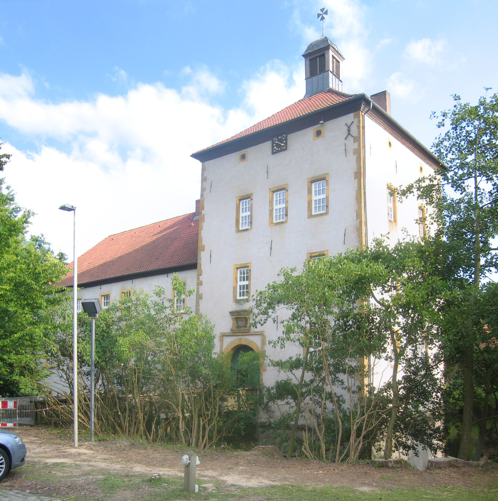 Bustedt Castle in Hiddenhausen, District of Herford, North Rhine-Westphalia, Germany.